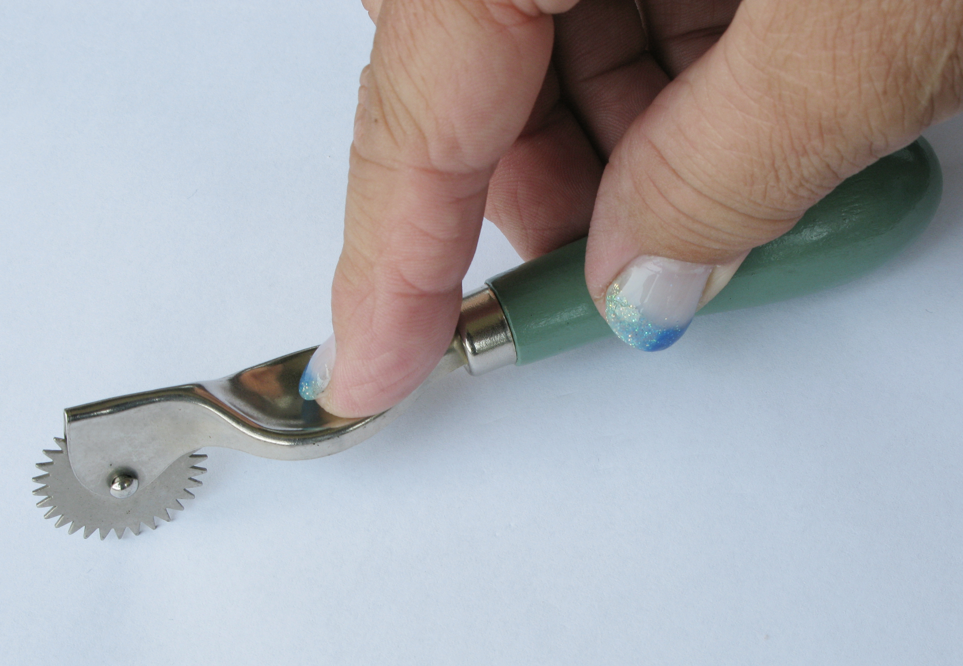 A tracing wheel used for transferring patterns.